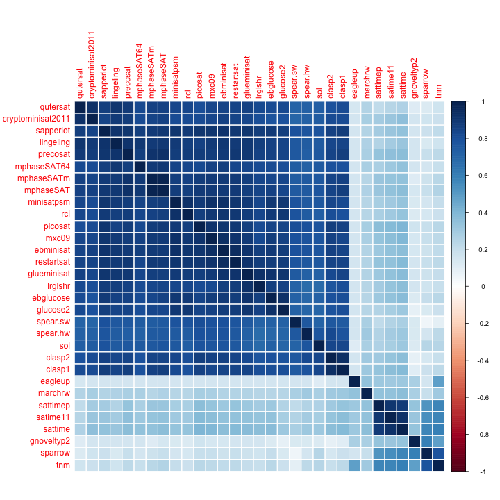 Clustering of SAT solvers from the SAT Competition 2012 according to the correlation coefficient of spearman.